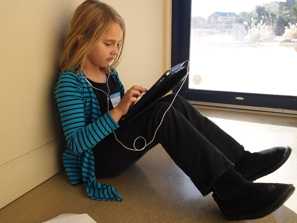 Photos of elementary students using iPads at school to do amazing projects. Photo taken by Lexie Flickinger.